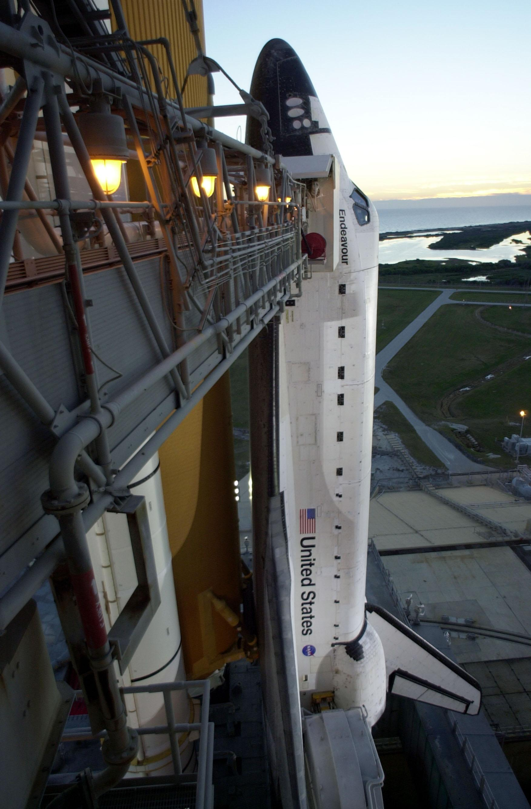 Shuttle Endeavour sitting on the launchpad on a clear morning (NASA photo number KSC-00PADIG-113)